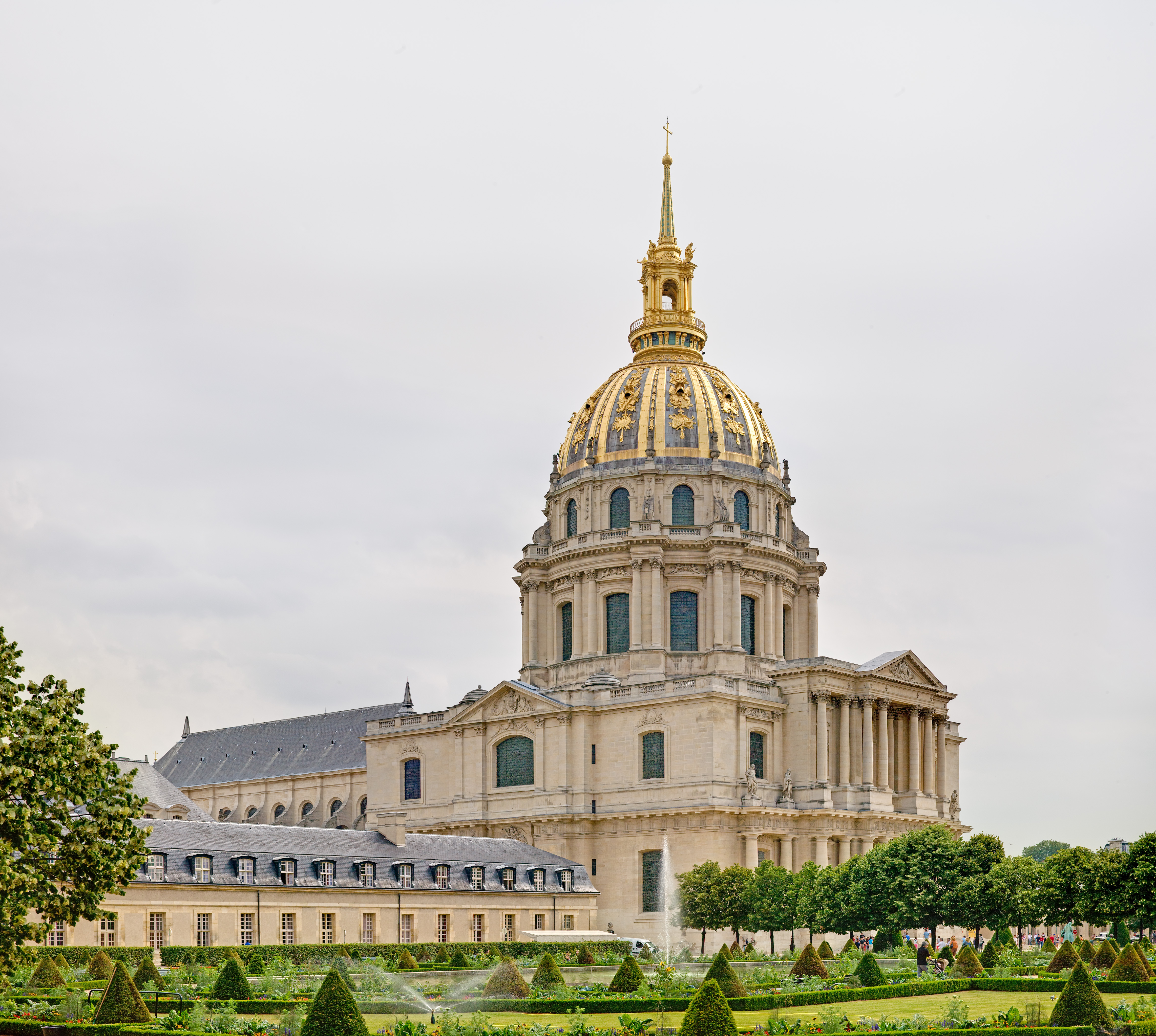 The Dome Church, known as Église du Dôme, at Les Invalides. This is a high resolution panoramic mosaic comprising 15 (3 x 5) segments taken with Canon 5D and 24-105mm f/4L IS.